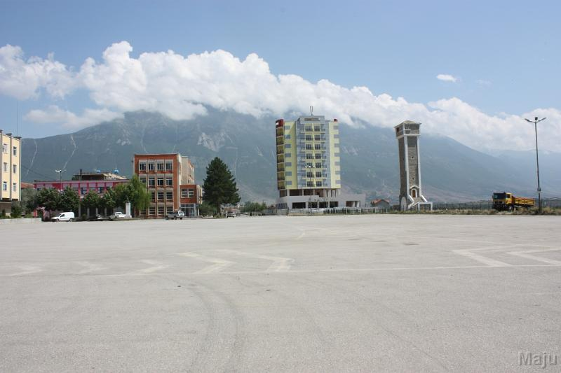 Kukes